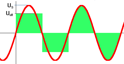 Effective valule